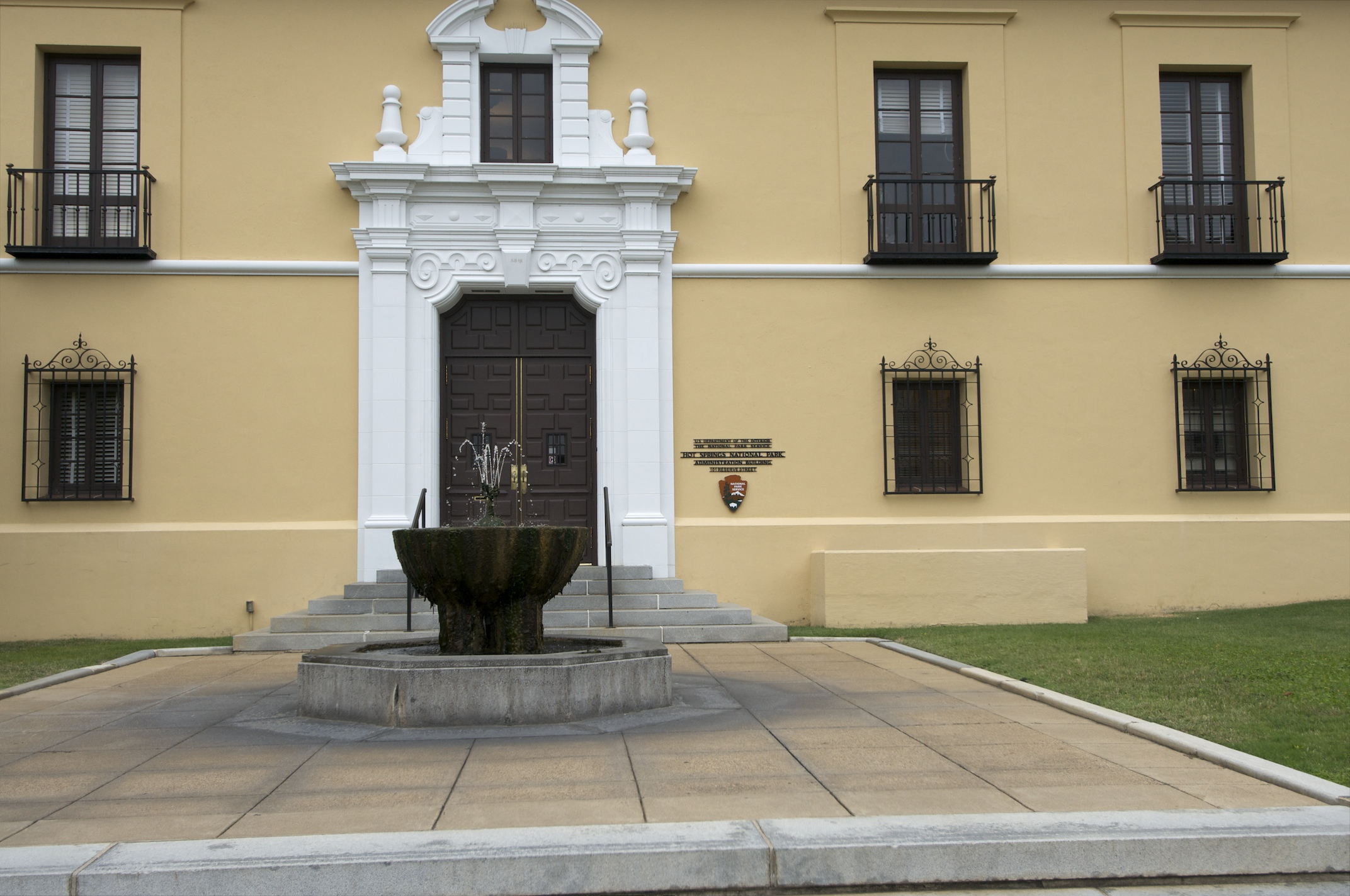 Hot Springs National Park, Garland County, Arkansas